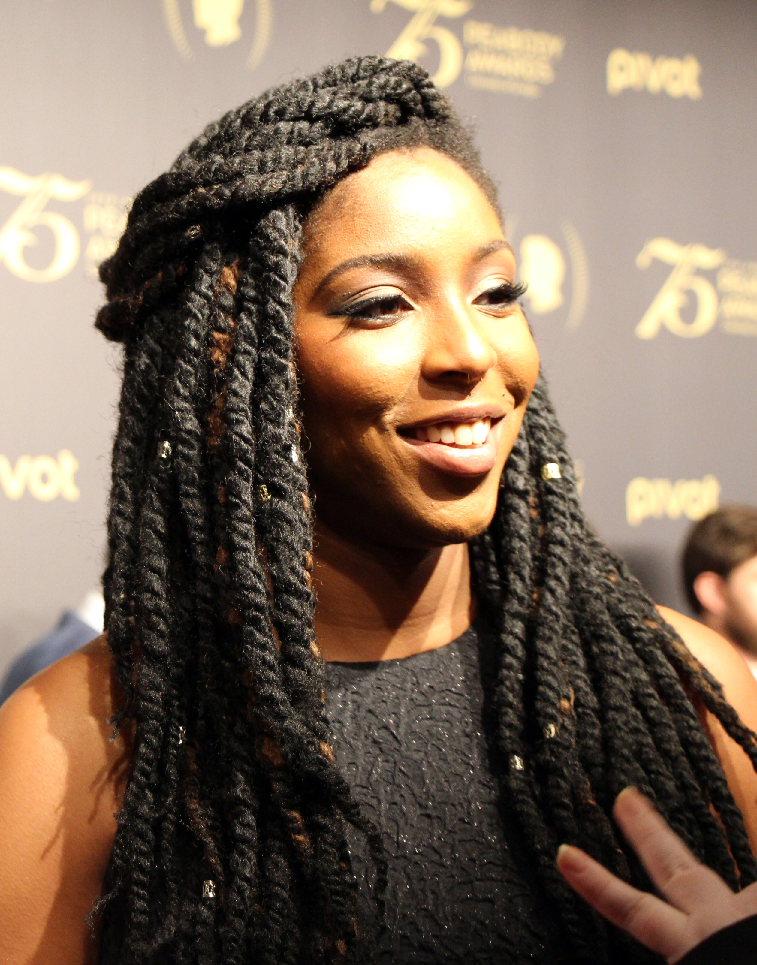 The 75th annual Peabody Awards, recognizing excellence in broadcast media, were presented May 21, 2016, at Cipriani Wall Street. Keegan-Michael Key was the host. (Photo/Sarah E. Freeman/Grady College, in New York City, Georgia, on Saturday, May 21, 2016)